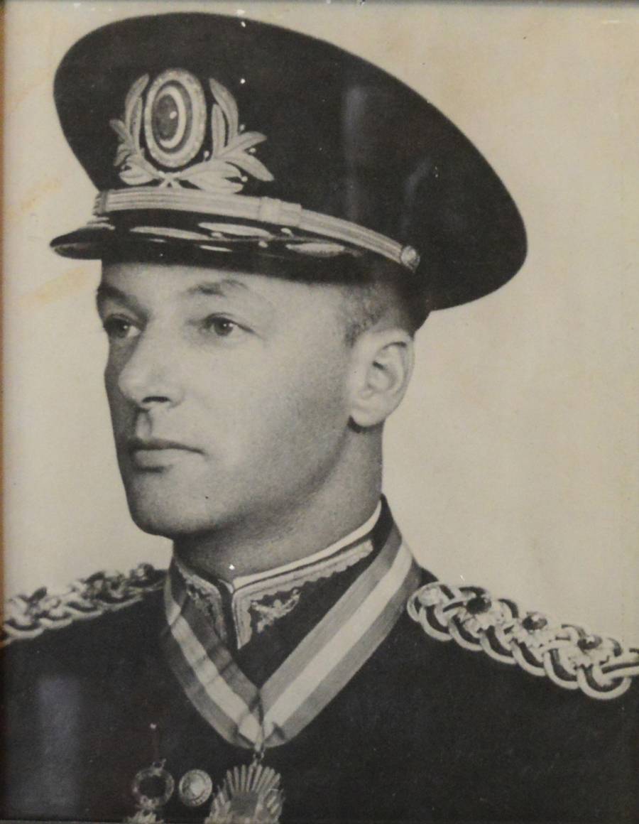 Marshal Henrique Lott, Brazilian Army.